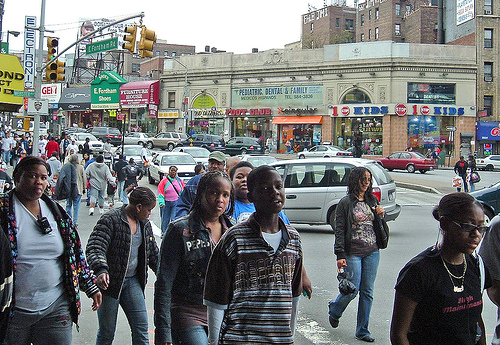 East Fordham Road on the southeast corner of Decatur Avenue in the Fordham section of the Bronx, just west of where US 1 turns from Webster Avenue to Fordham Road.